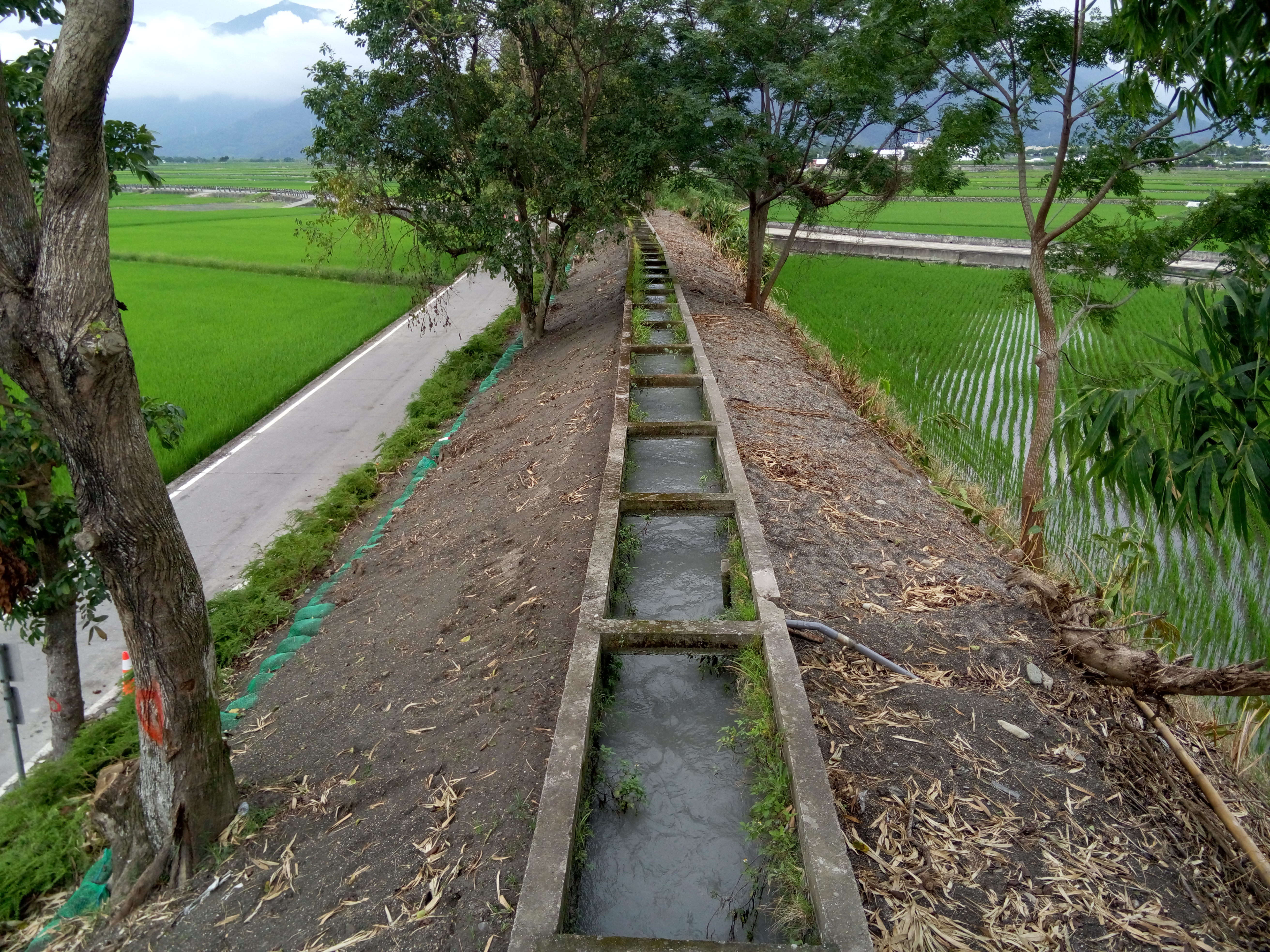 Taiwan Taitung County Chihshang Floating Waterway